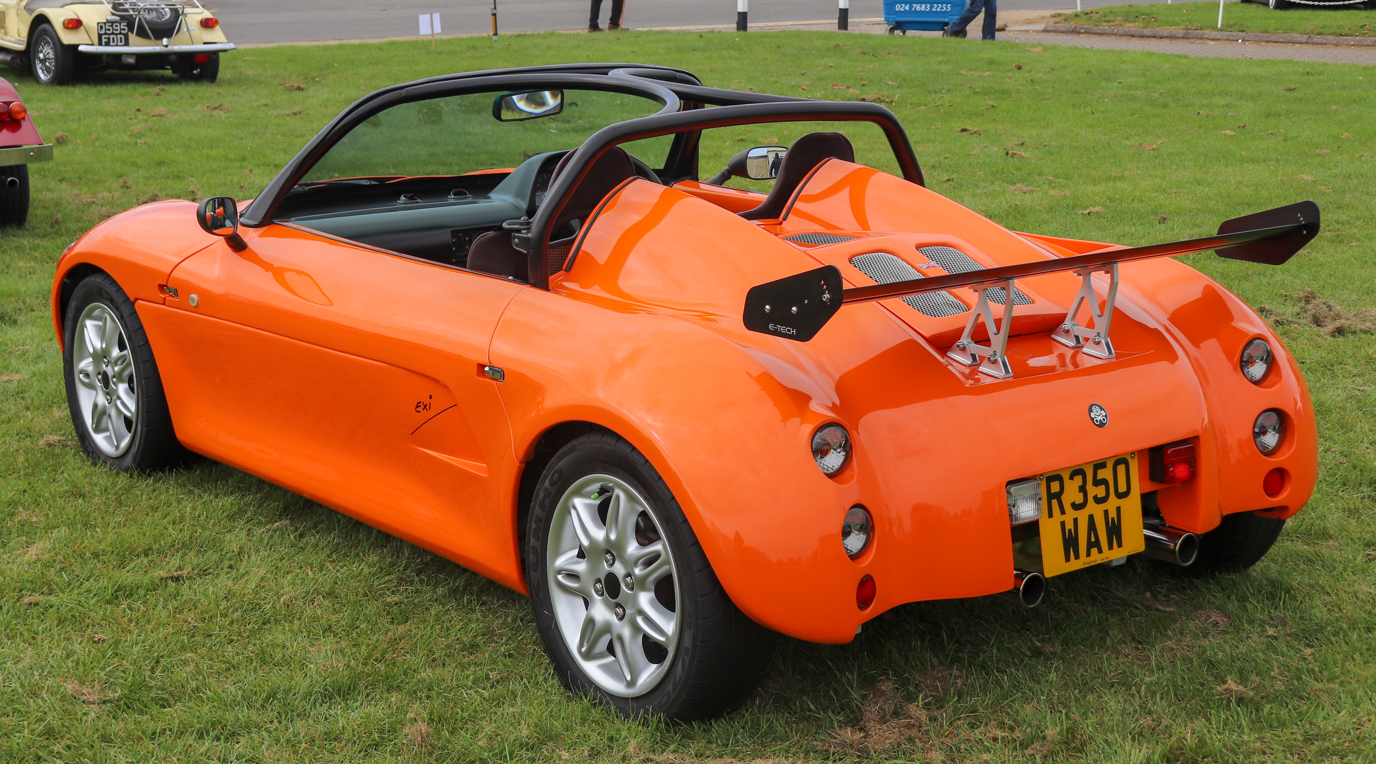 2006 Marlin EXi 2.0 Rear Taken at the Stoneleigh National Kit Car Motor Show 2019